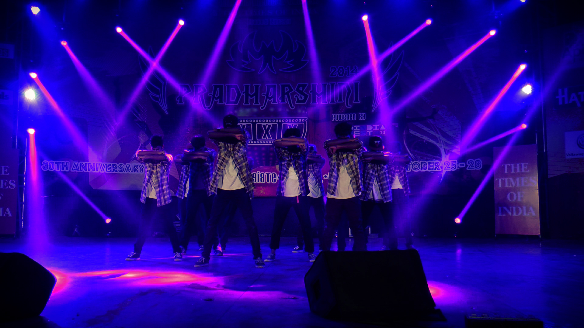 Choreo at Pradharshini 2014